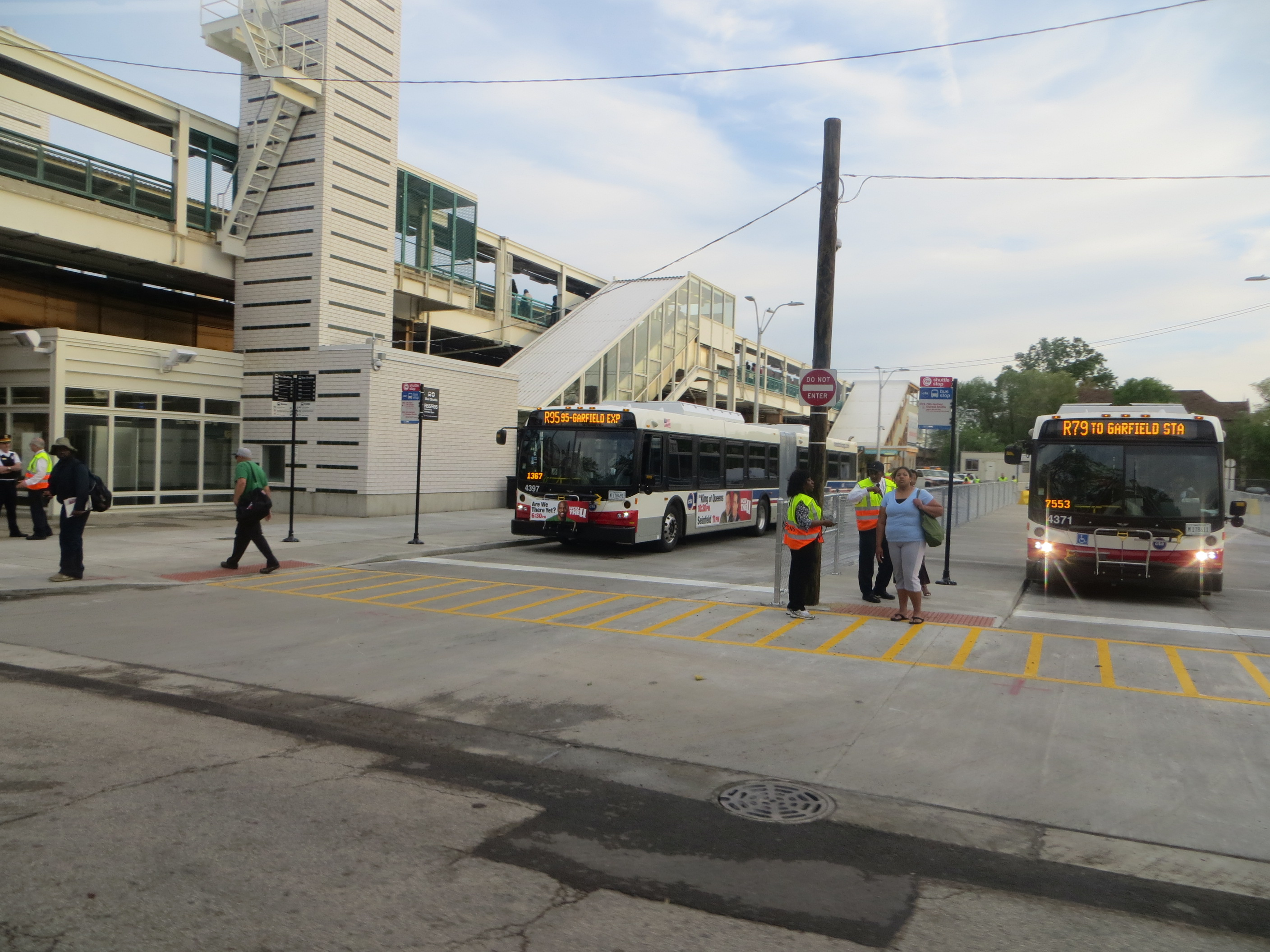 20130521 10 CTA Red Line Shuttle Terminal @ Garfield